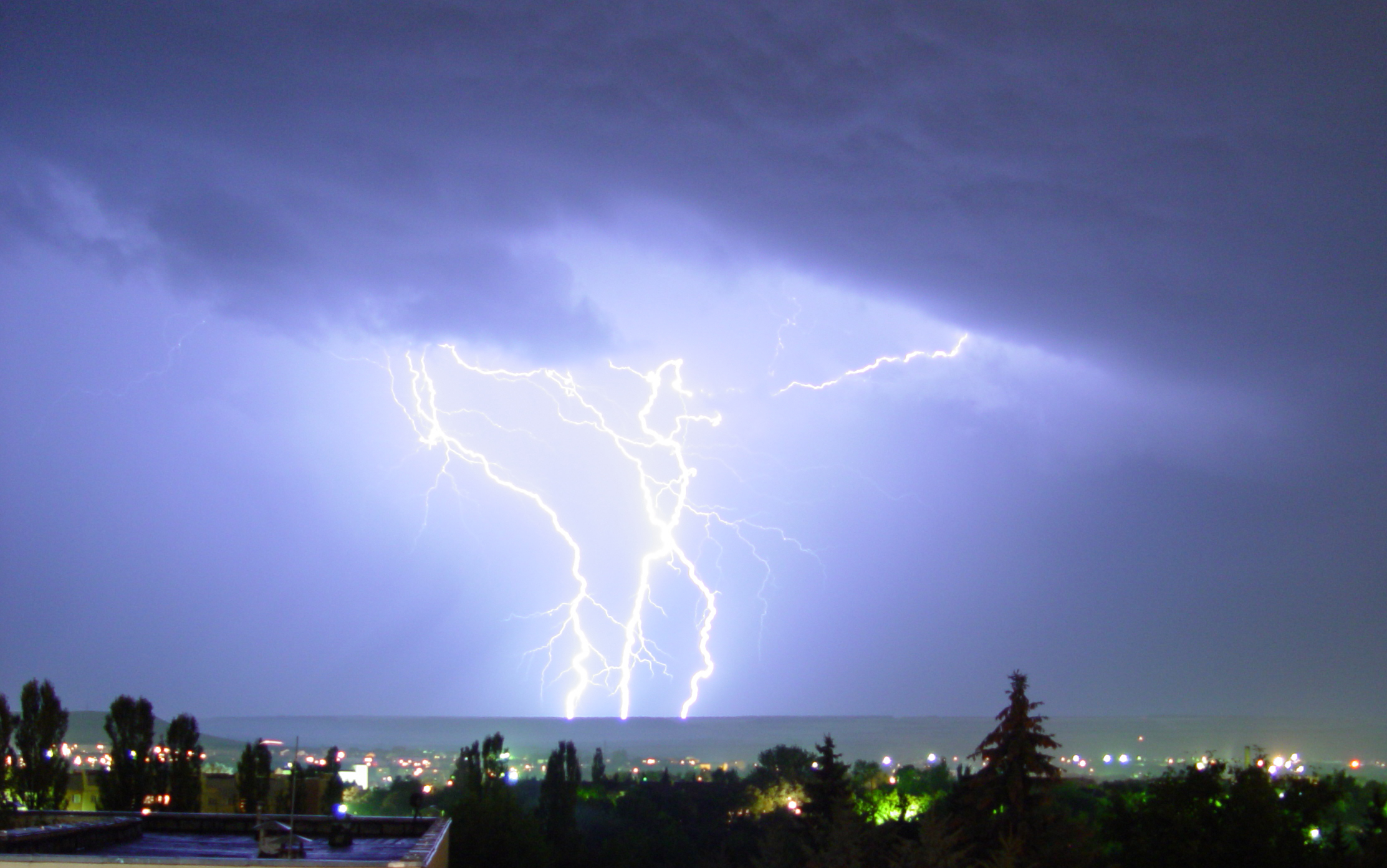 Lightning. Essentuki, Stavropol Territory, Russia